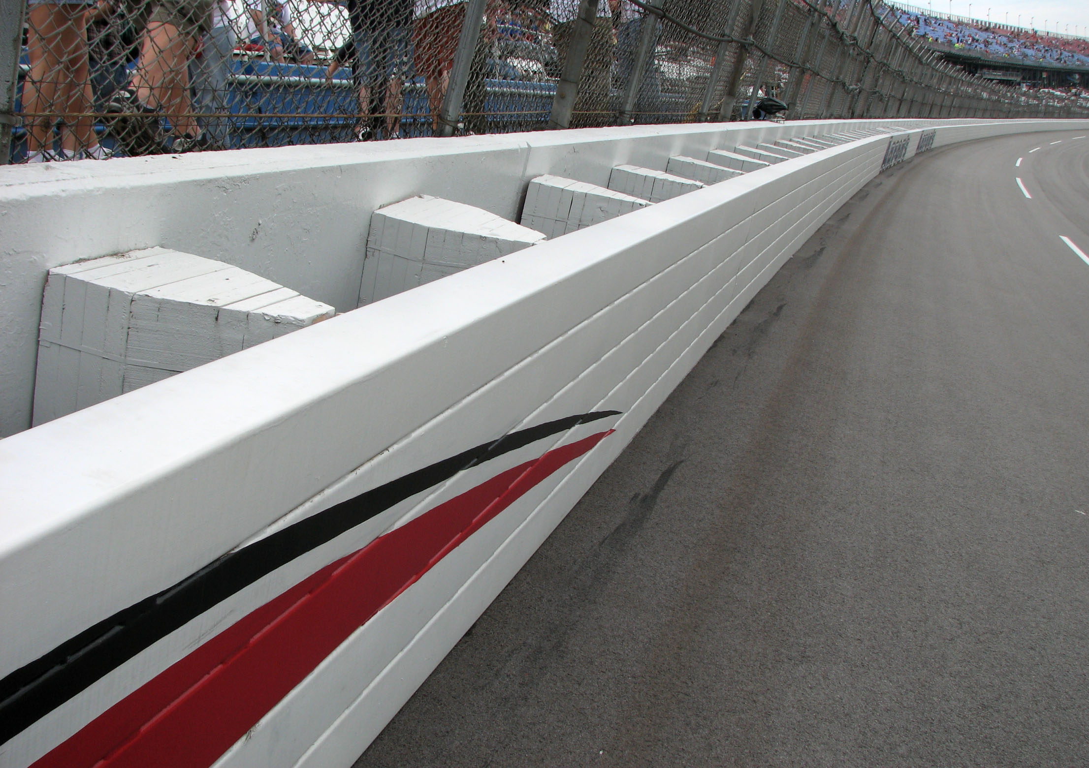 View of the SAFER_Barrier looking back up the front stretch at the w:2008 Aaron's 399 at Talladega Superspeedway